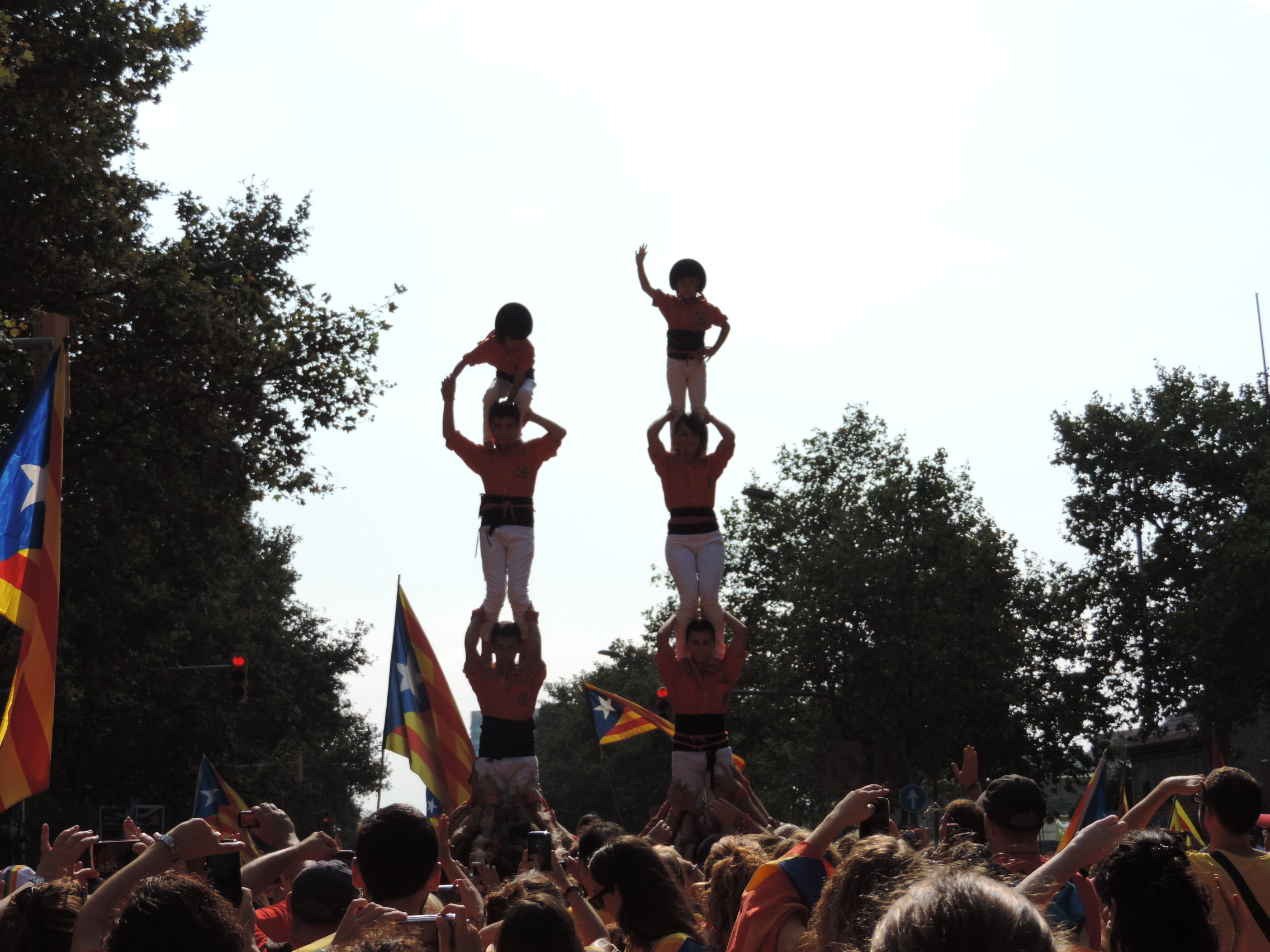 «V» National Day of Catalonia 2014